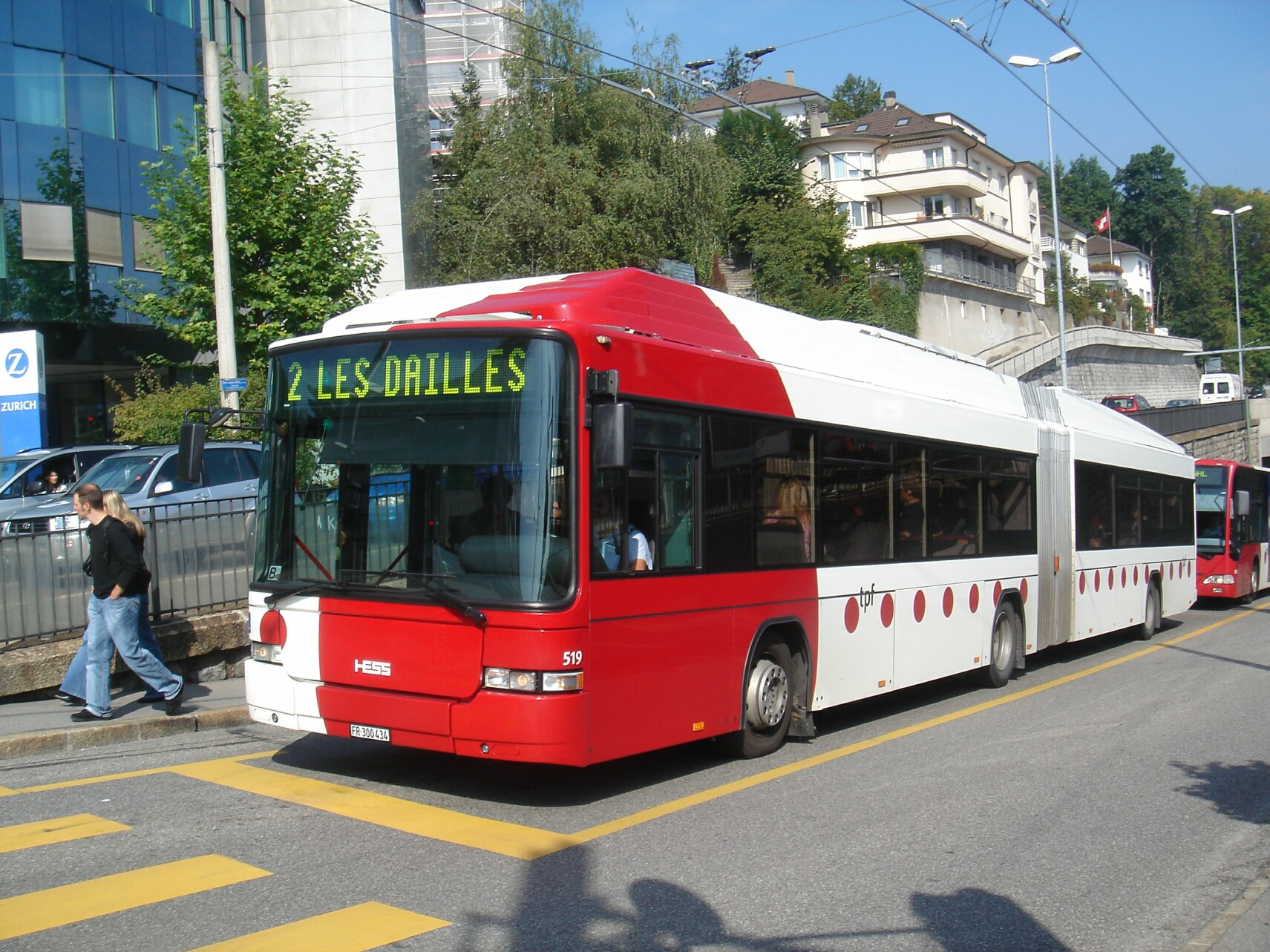 A MAN-Hess-Kiepe Duobus of NGT204F type, similar design to a Swisstrolley, leaves Fribourg/Freiburg railway and bus station in diesel mode